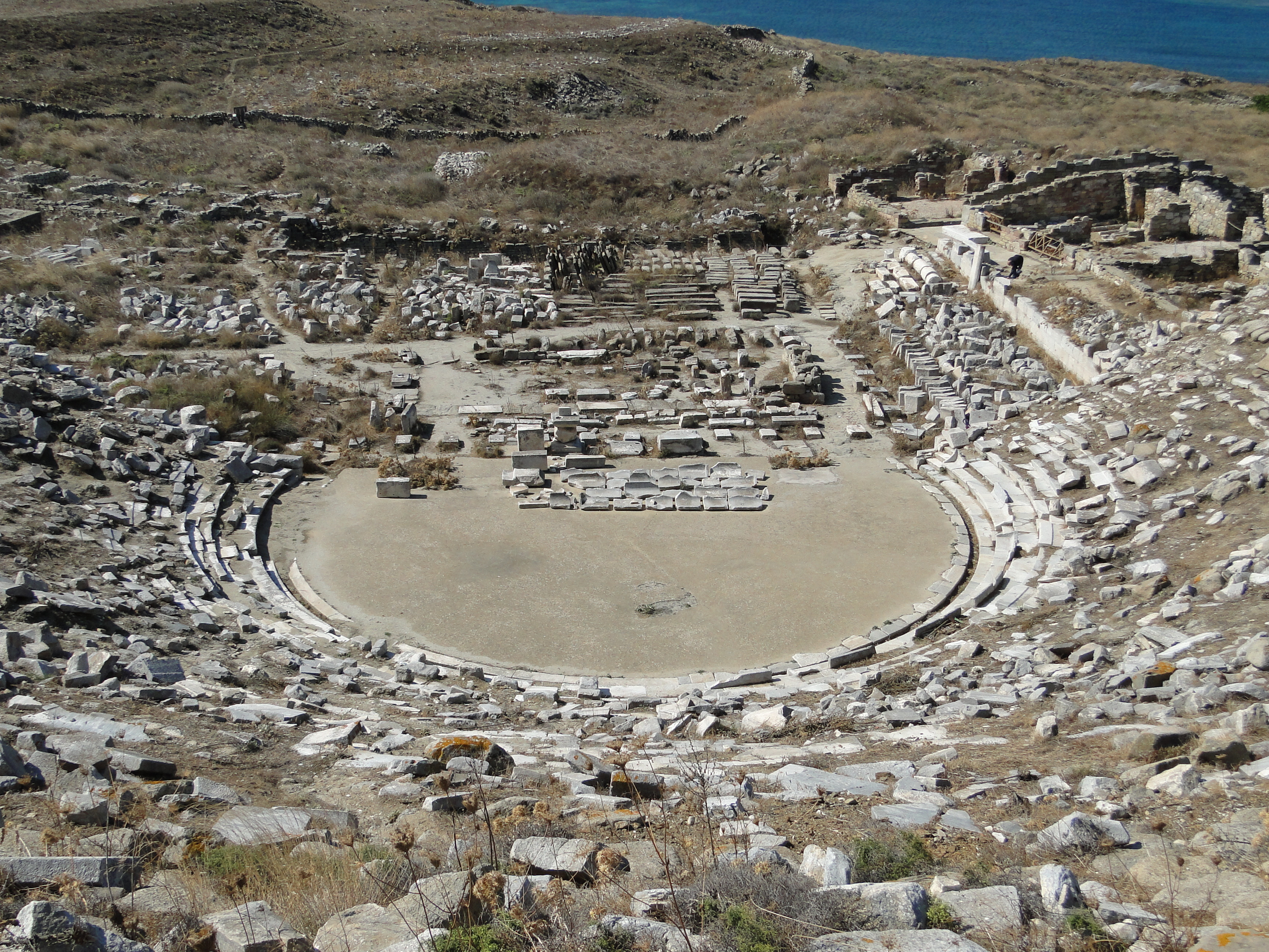 Ancient Greek theatre in Delos, Greece